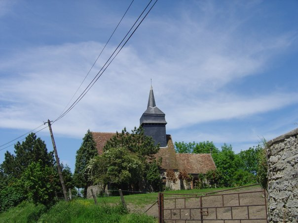 Auchy Chapel. Old church of Auchy Parish. XII - XVIIIe c.